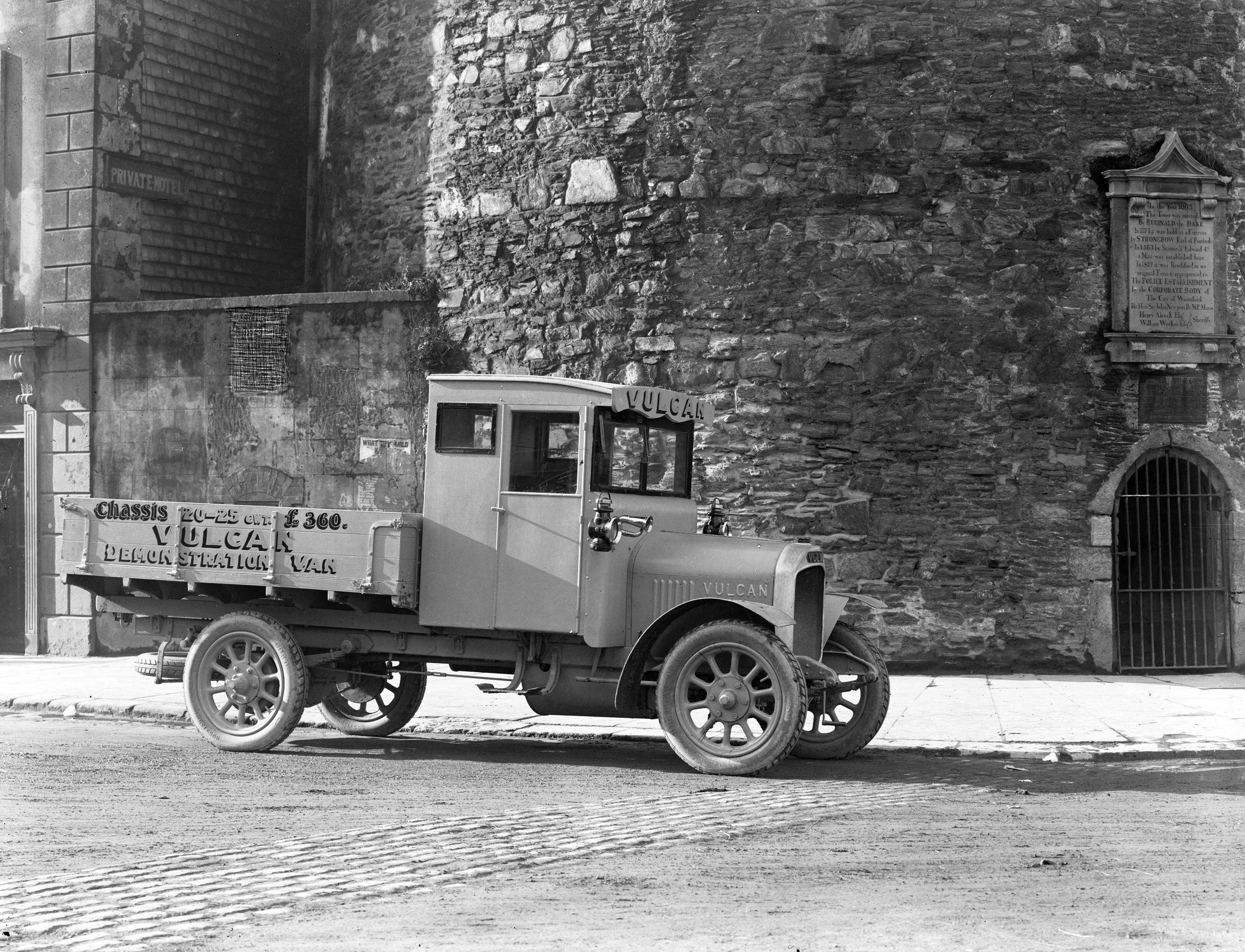 Brand spanking new, and a snip at £360 - this is the Vulcan Demonstration Van. Its chassis could take 20-25 cwt., and it was distributed by B.T. Lambert Ltd., 3 Cornmarket, Dublin. From examining shots of the van from other angles, the reg. no. seems to be 0010 YI (definitely YI, but 0010 doesn't sound right). I've transcribed the full text from the carving over the door of Reginald's Tower behind the van, so if you can't make it out in a larger size, just shout and I'll add it here... Date: Saturday, 9 February 1924 NLI Ref.: P_WP_3151